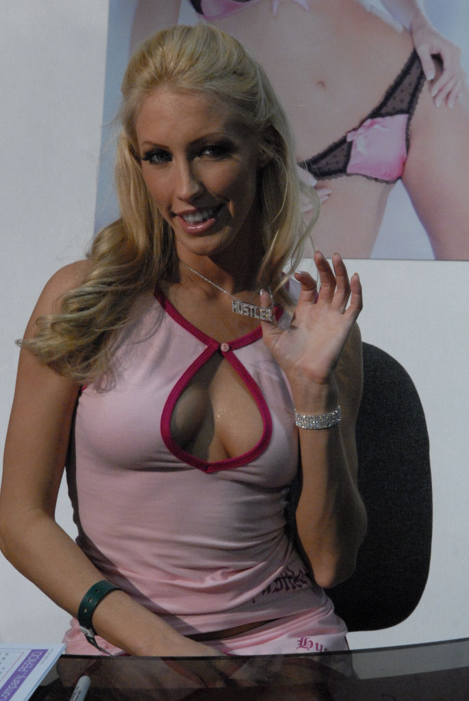 Cassie Young at AVN Adult Entertainment Expo 2008